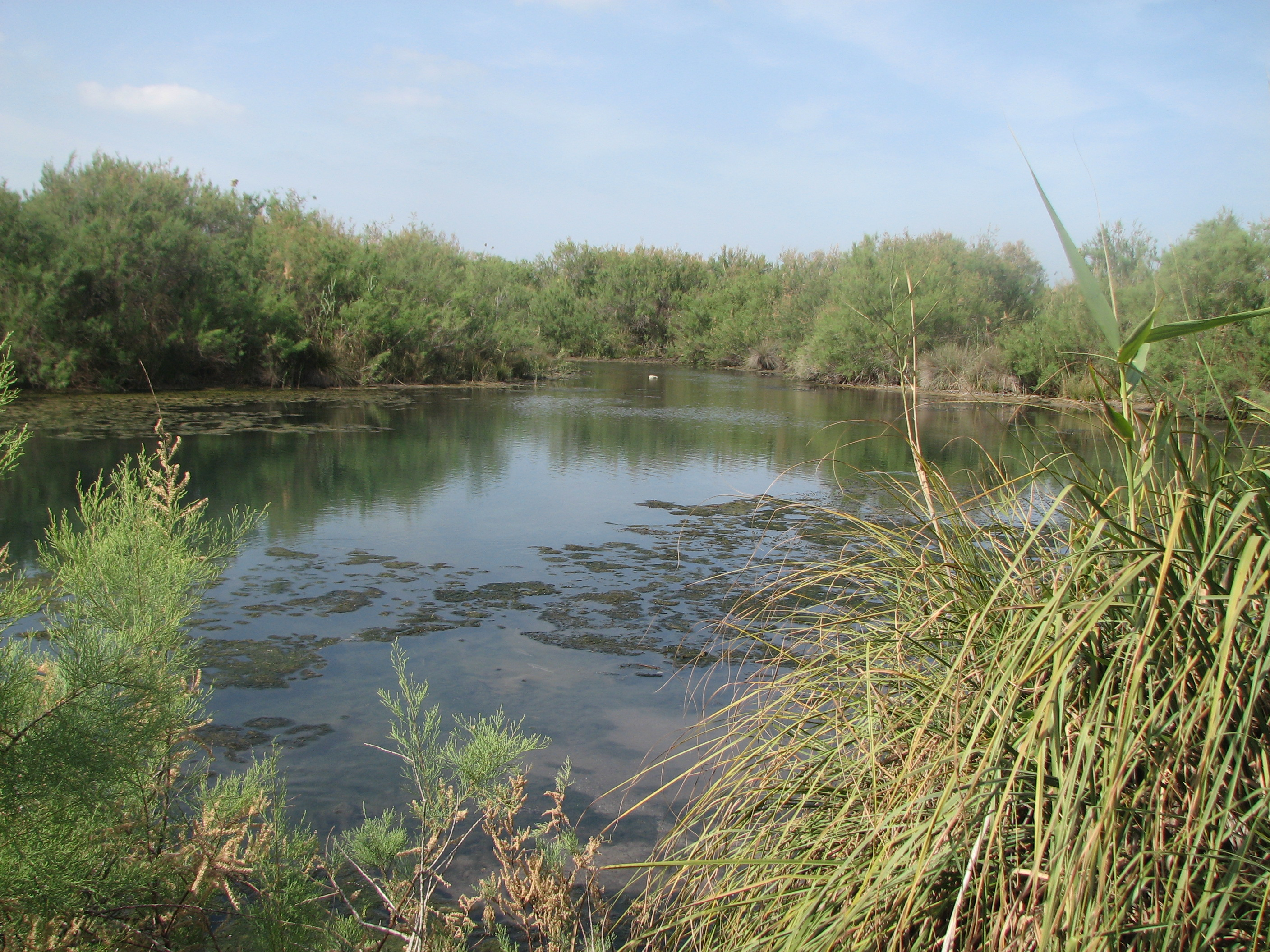 Geography of Israel